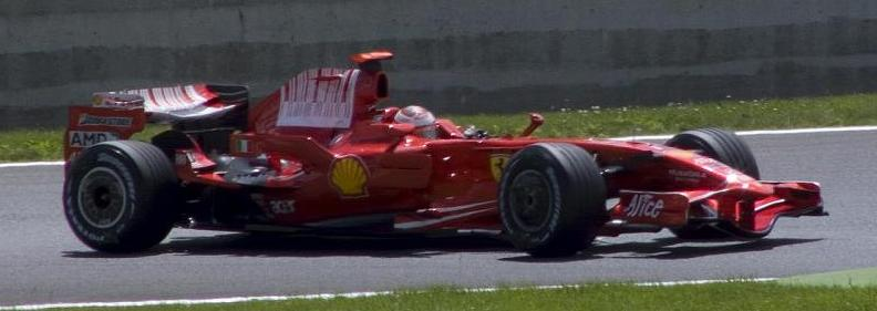 Kimi Räikkönen driving for Scuderia Ferrari at the 2008 French Grand Prix.